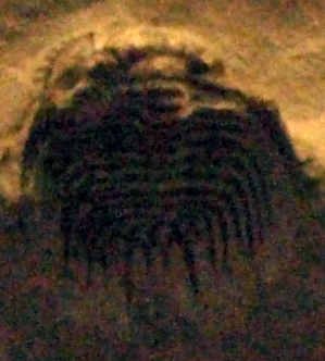 Leonaspis deflexa (Lake), a trilobite of the Silurian Wenlock series, found at Dudley, Worcestershire.